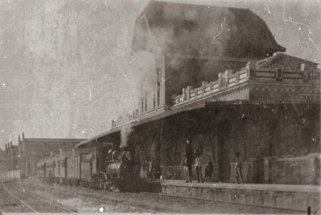 Train arrives at Lavras Station, Minas Gerais, Brazil